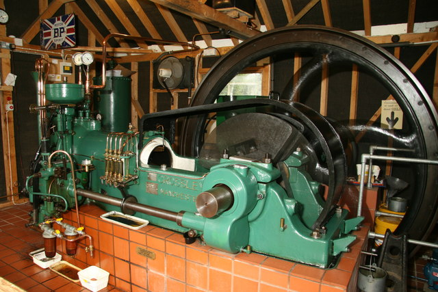 Crossley diesel, Redbournbury Mill Preserved engine erected in a separate shed alongside the watermill.